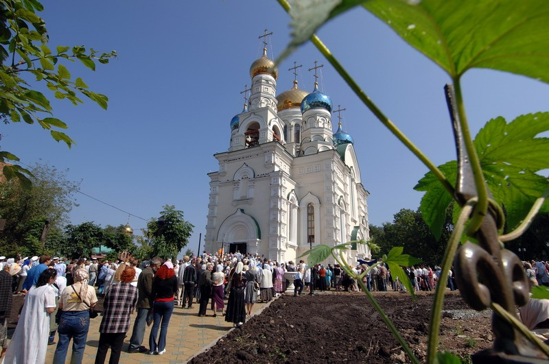 Church of Our Lady's Protection (Vladivostok)